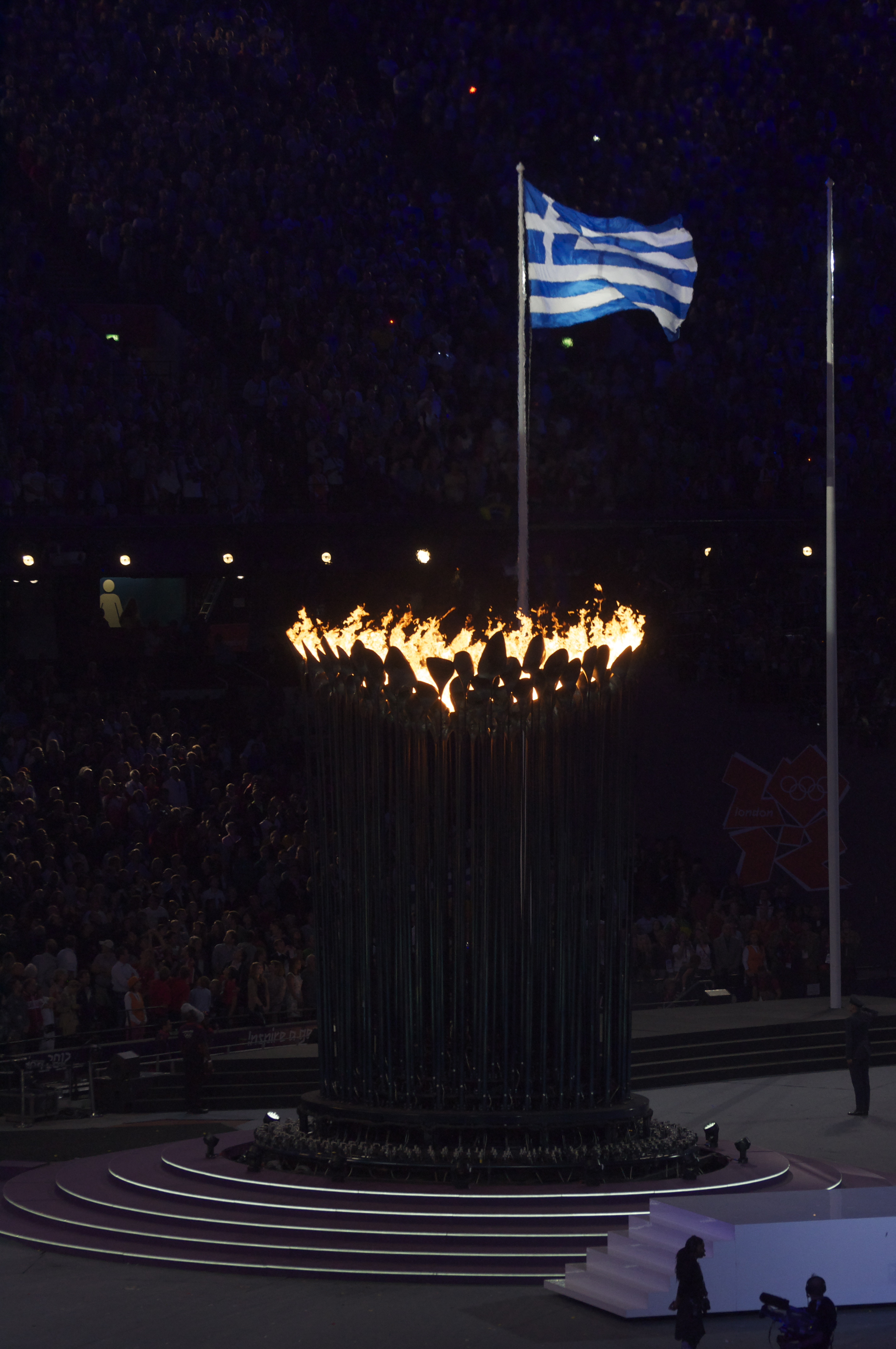 Flag of Greece and the London 2012 Olympic Cauldren.